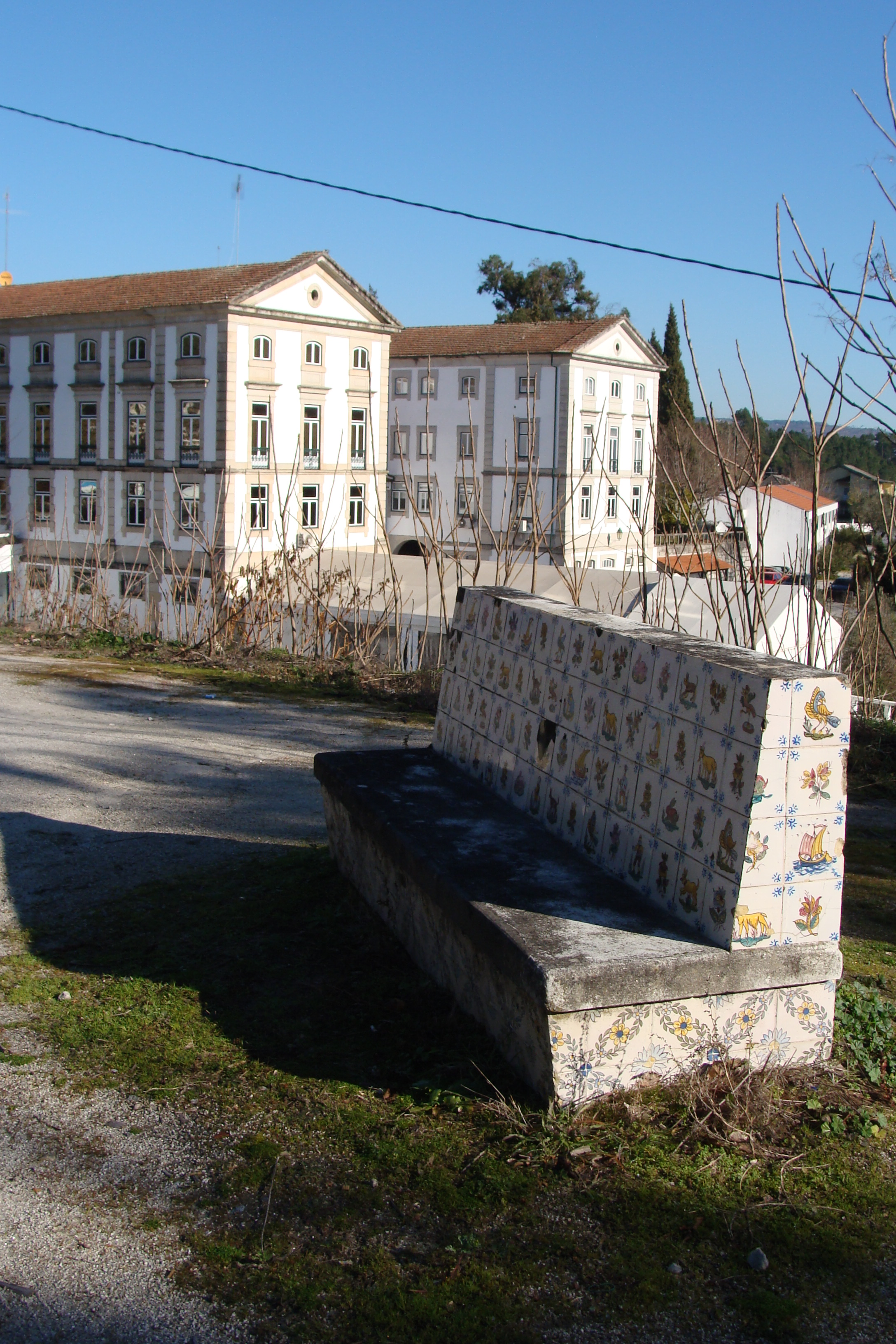 Grande Hotel das Caldas da Felgueira, Serra da Estrela Serra da Estrela video - «Serra da Estrela ("Mountain Range of the Star") is the highest mountain range in Continental Portugal, (...) at 1,993 m (6,539 ft) - this point is not a distinctive mountain summit, but rather the highest point in a plateau, being known as Torre ("Tower" in English). It is formed from a huge granite ridge that once formed the southern frontier of the country. Due to its bizarrely shaped crags and gorges, mountain streams and lakes, beautiful forests and magnificent views, the area ranks among Portugal’s outstanding scenic attractions. There are three rivers that have their headwaters in the Serra da Estrela: the Mondego, (...) the Zêzere, (...) and the Alva. The mountain range is now part of the Serra da Estrela Natural Park and offers plentiful skiing opportunities in the ski resort of Loriga. The Cão da Serra da Estrela (Estrela Mountain Dog) is a breed of livestock guardian dog that takes its name from this region. Queijo Serra da Estrela (Serra da Estrela cheese) is a soft cheese from the region of Serra da Estrela. The recipe has more than 2000 years. It is made from cardoon thistle, raw sheep's milk and salt. The cheese is soft and gooey.» IN: Serra da Estrela, Região Centro, Portugal, 12/2011.